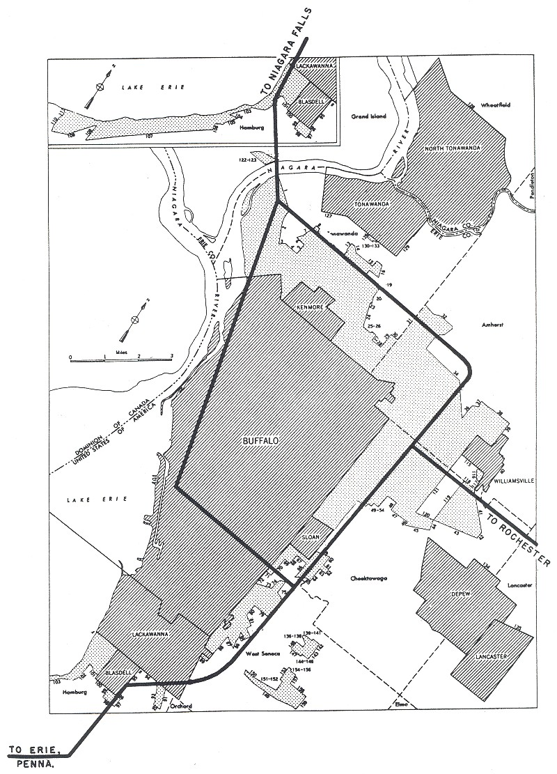 Interstates in today's terms I-90 I-190 I-290